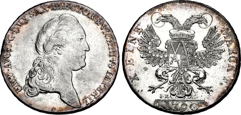 GERMANY, Sachsen-Albertinische Linie. Friedrich August III. Elector, 1763-1806. AR Taler (40mm, 27.98 g, 12h). Dresden mint. Dated 1790. FRID • AUG • D • G • DVX SAX • ELECTOR & VICARIUS IMPERII , bare head right / X • EINE MARCK F •, double eagle facing, wings displayed, coat of arms on breast; I • E •-C • below, 1790 in exergue. Schnee 1088; Davenport 2697. Near EF.